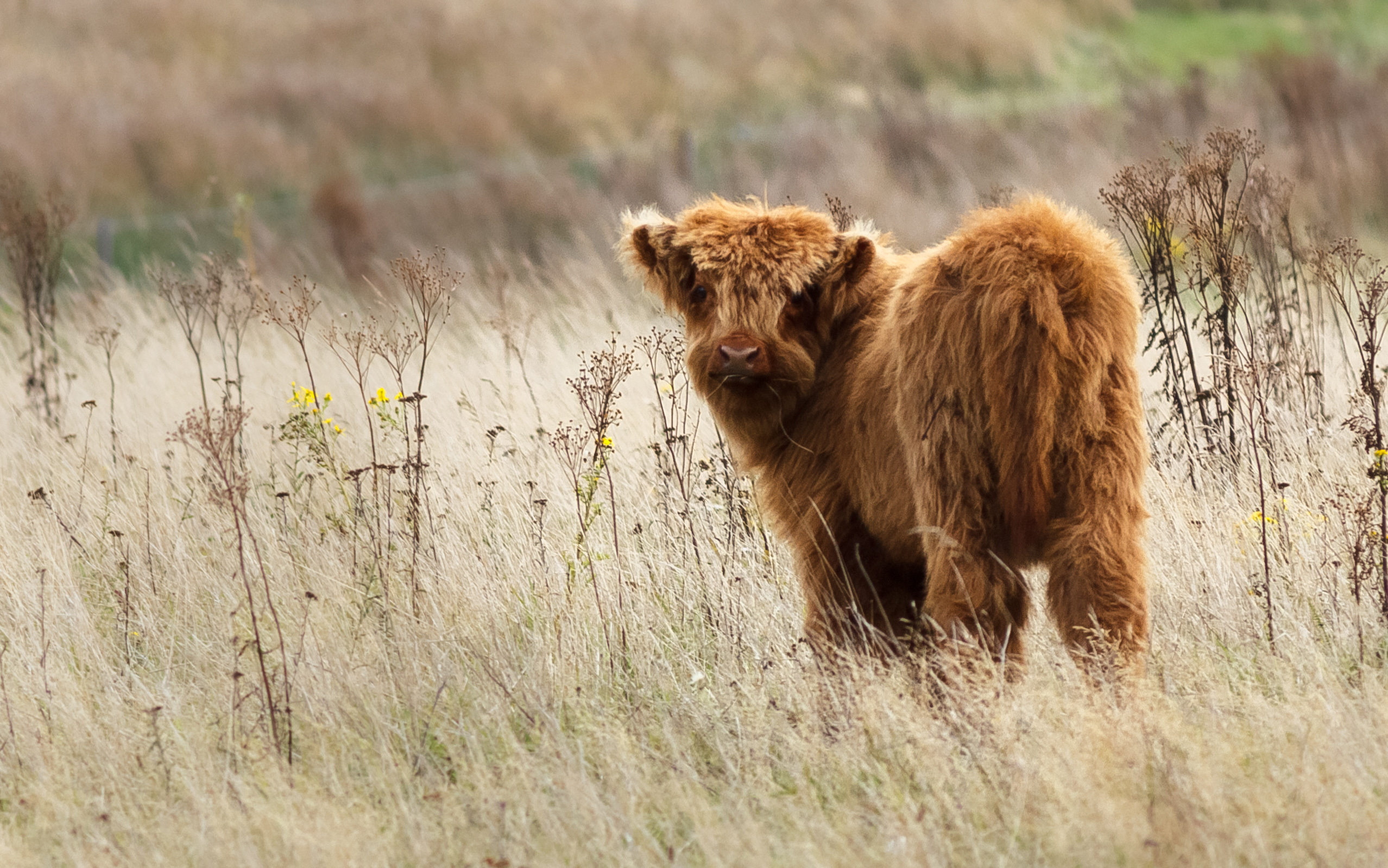 A calf of Highland cattle on a field on Venø, Denmark